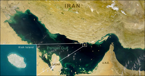 Kish island from space